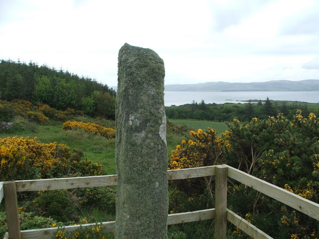 The Ogham Stone, Gigha, Inner Hebrides, Scotland. Not very photogenic due to the pointless fence surrounding it.